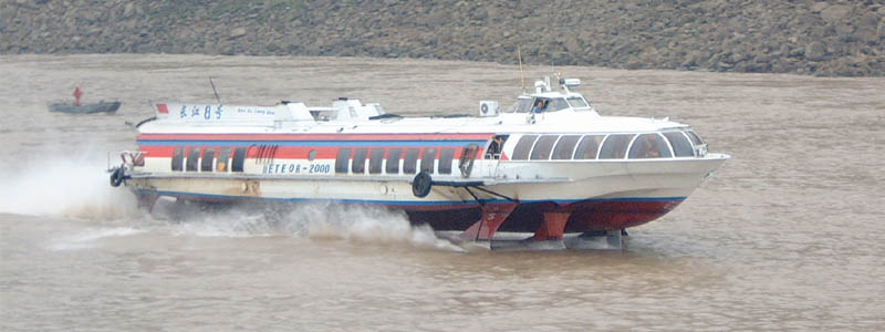 Meteor hydrofoil on the Yangtze River (Chang Jiang). While most ships on the river had to wait for passage clearance through the narrows of the Three Gorges, the Meteors and fast planing boats, able to run in the shallows, zipped past the ordinary riverboats. Boat-like object in background is a navigation bouy. Photo taken late September 2002 by Mike Martin, uploaded by User:Leonard G.